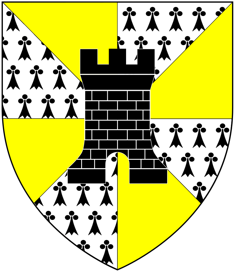 Arms of Sir Nicholas II Hooper (1654-1731) of Fullabrook, Braunton and Raleigh, Pilton in Devon, Member of Parliament for Barnstaple 1695-1715: Gyronny of eight or and ermine, over all a castle triple-towered sable, as usually blazoned. (More accurately: Gyronny of eight or and ermine, over all a tower triple-turreted sable. As visible impaling Pyne (Gules, a chevron ermine between three pine apples or) (Vivian, Heraldic Visitations of Devon, 1895, p.632) on mural monument to his mother Melior Hooper (née Pyne) (d.1703), in Upton Pyne Church. These are the arms given in Burke's General Armory, 1884, p.505, for "Hooper". They are one of about 12 sculpted in stone on the parapet of Queen Anne's Walk in Barnstaple, which building (formerly known as the Mercantile exchange) was completed in 1713, representing several of the principal local dignitaries. These arms are also shown on a series of small enamelled brasses formerly displayed under the portico of the building but now on display on the staircase of Barnstaple Guildhall, his arms are shown in enamel, with tinctures, with the name "Hooper" inscribed on the frame. These gyronny arms, with variant tinctures, were also borne by possibly related families including: Howper of Musbury, Devon (16th century) (Vivian, p.488, pedigree of Howper of Musbury) George Hooper (1640-1727), of Grimley, Worcestershire, Bishop of Bath and Wells; Rev. James Hooper (d.1787), builder in about 1740 of Hendford House in Yeovil, Somerset; Hopper of Shincliffe, Durham; Hopper of Witton Castle, County Durham.